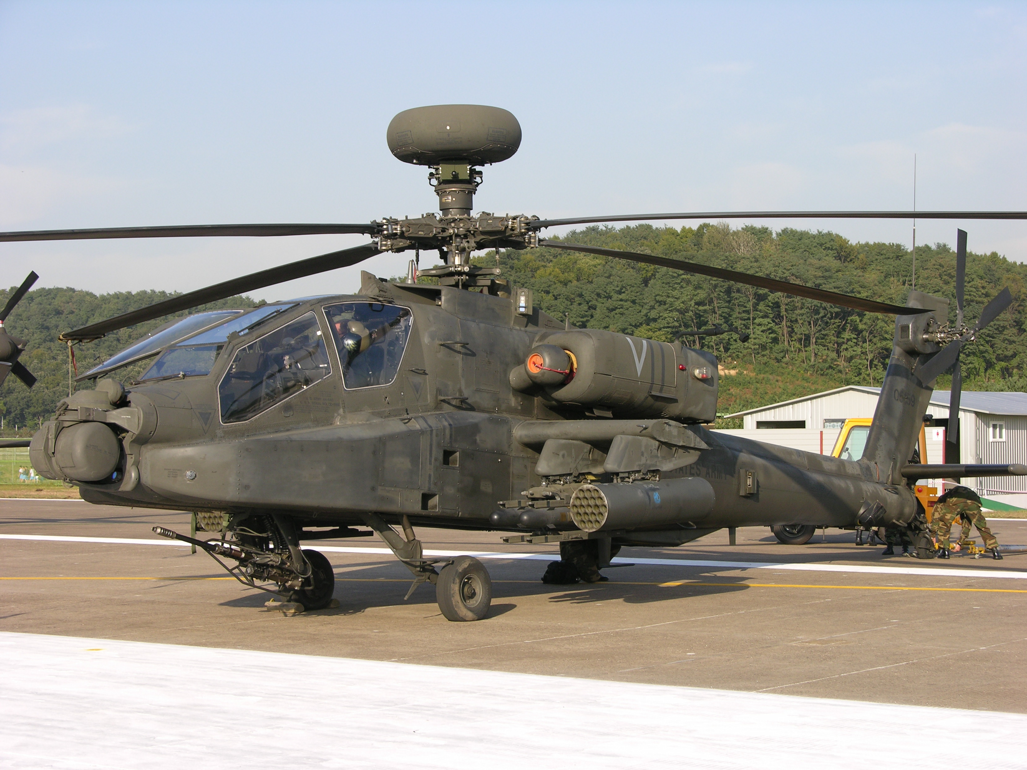 Seen in the static at the 2005 Seoul air show.